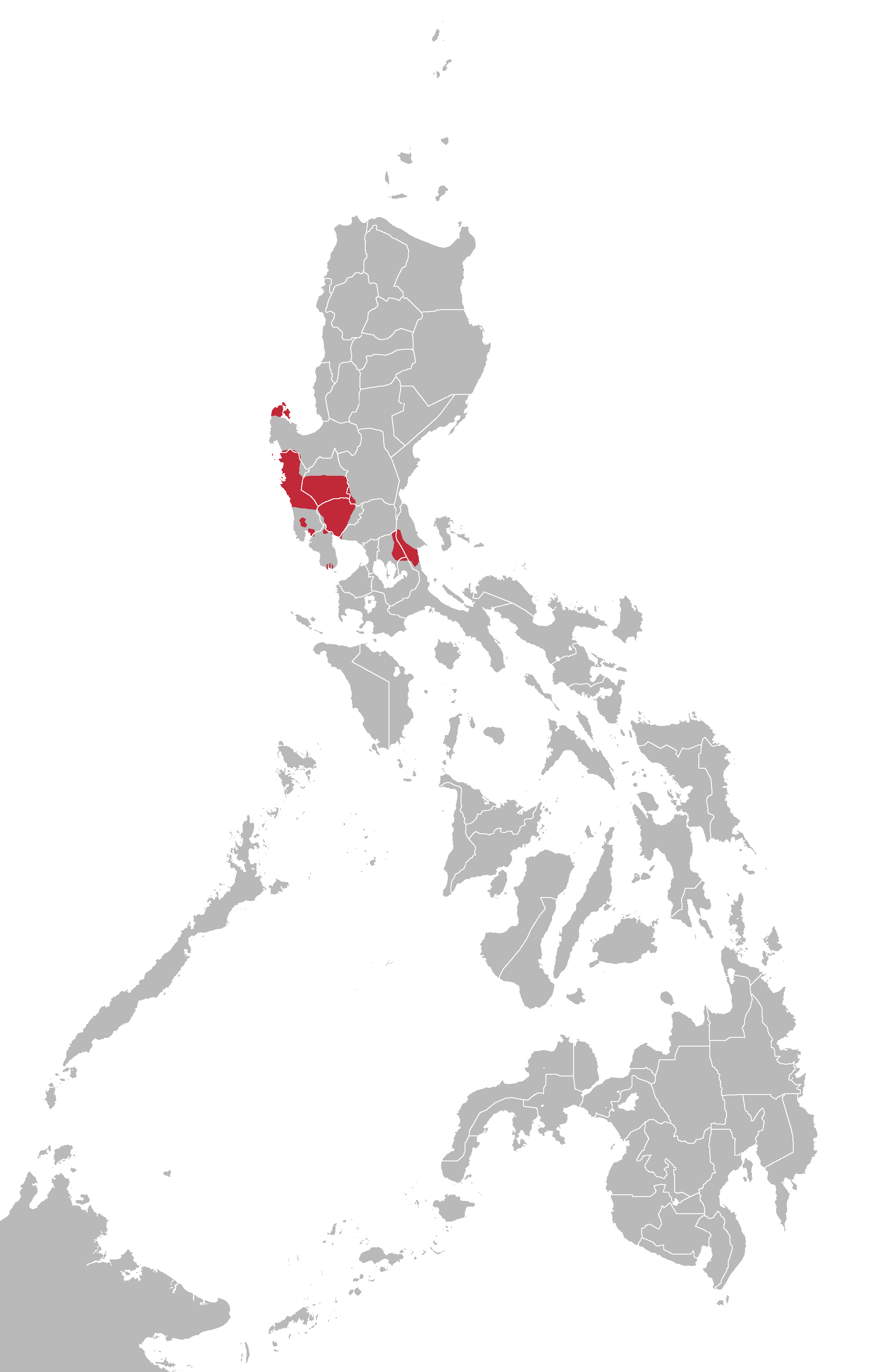 Language map of Northern Luzon languages Tagalog: Mapa ng wika ng mga wika ng Gitang Luzon